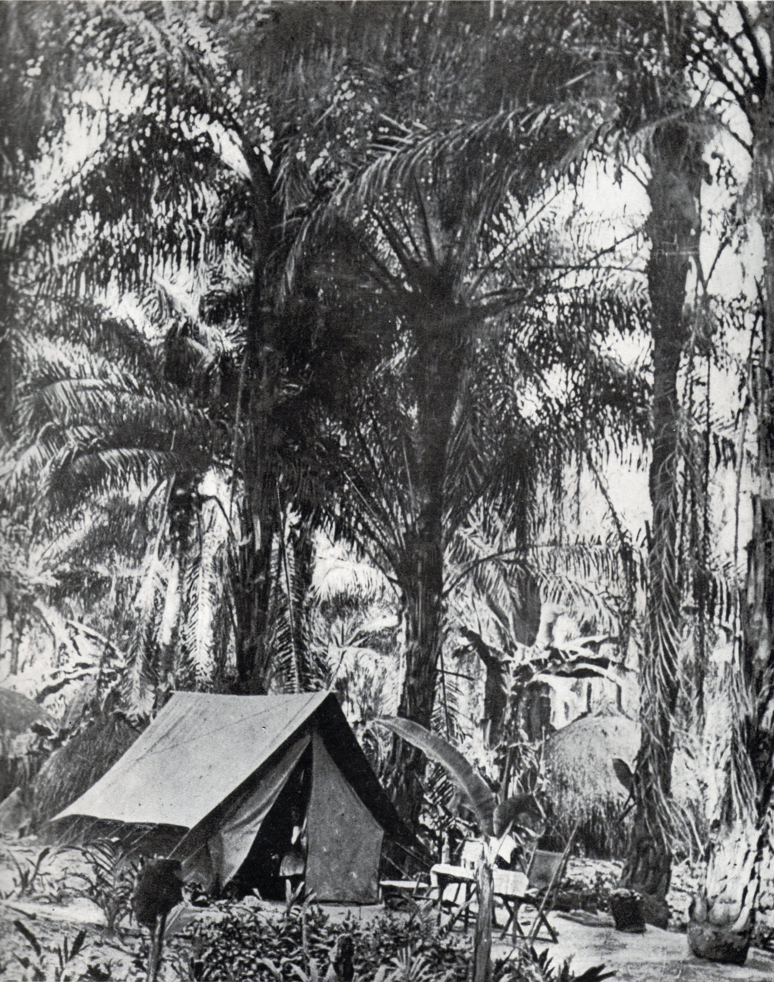 Commandant Léon Tonneau (1863-1919), Director of "Comité Spécial du Katangae camp site as he was inspecting his constituency. Bukama (Katanga) between 1903 and 1906.